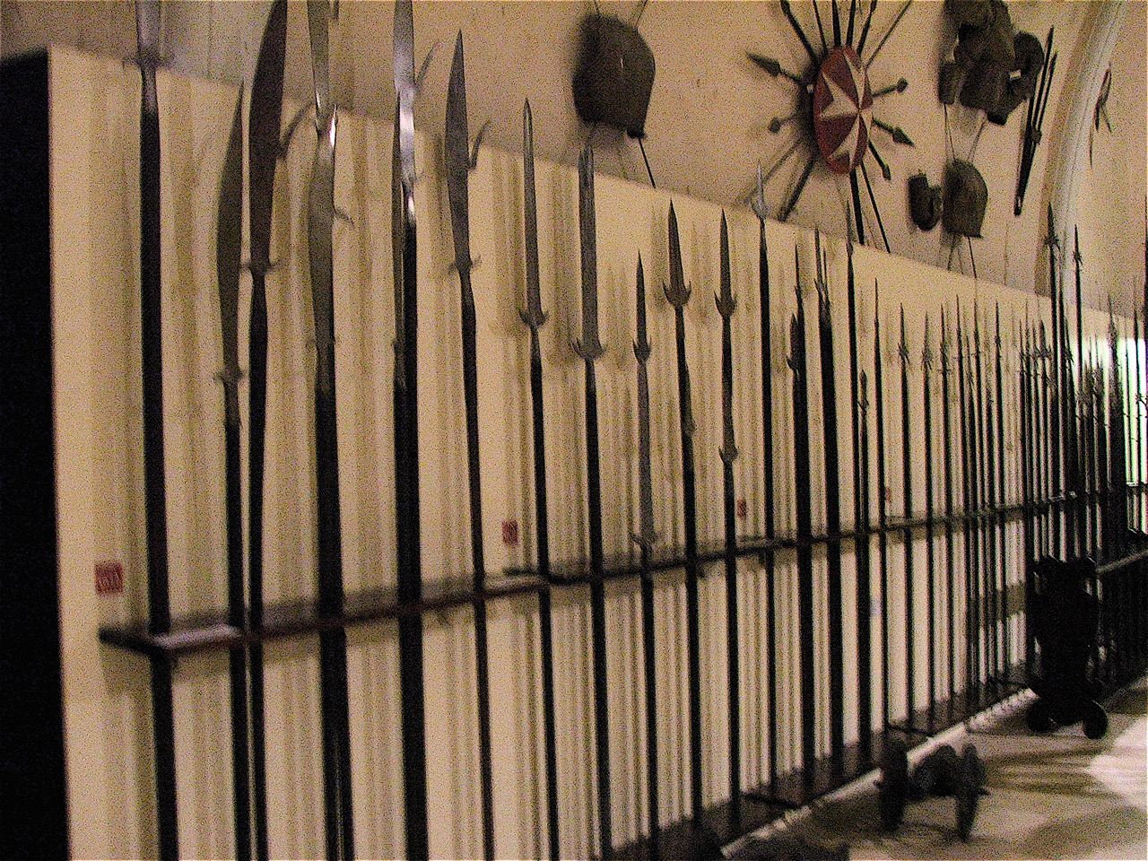 Pikes developed from the spear and was widely used by most European infantry well into the 17th century. It came in various sizes and the heads were shaped in a way both for thrusting and cutting down the enemy. The more elaborate ones were sometimes called halberds and they continued to be used up to the 16th century. - MALTA